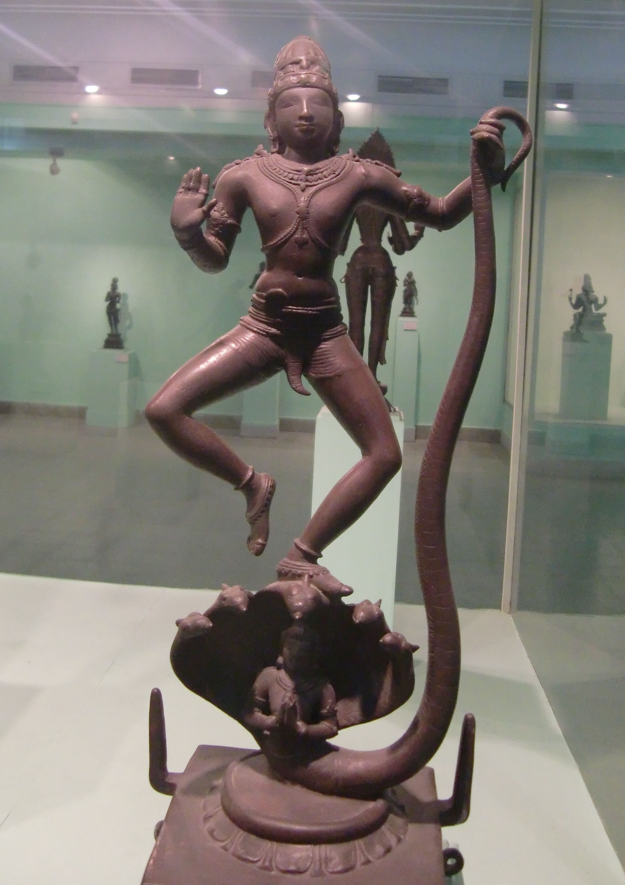 Krishna dancing on the Kaliya serpent, National Museum of India